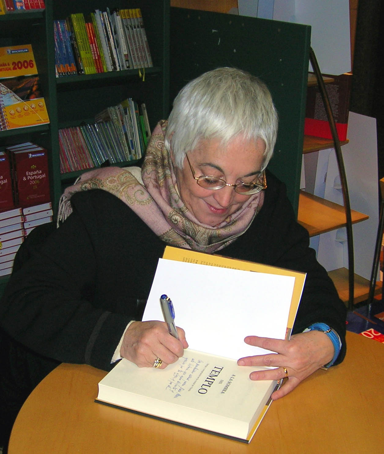 Toti Martínez de Lezea (born in Vitoria, 1949) Spanish writer, in Basque and Spanish languages, signing a copy of her novel A la sombra del tiempo at a bookshop in Bilbao.